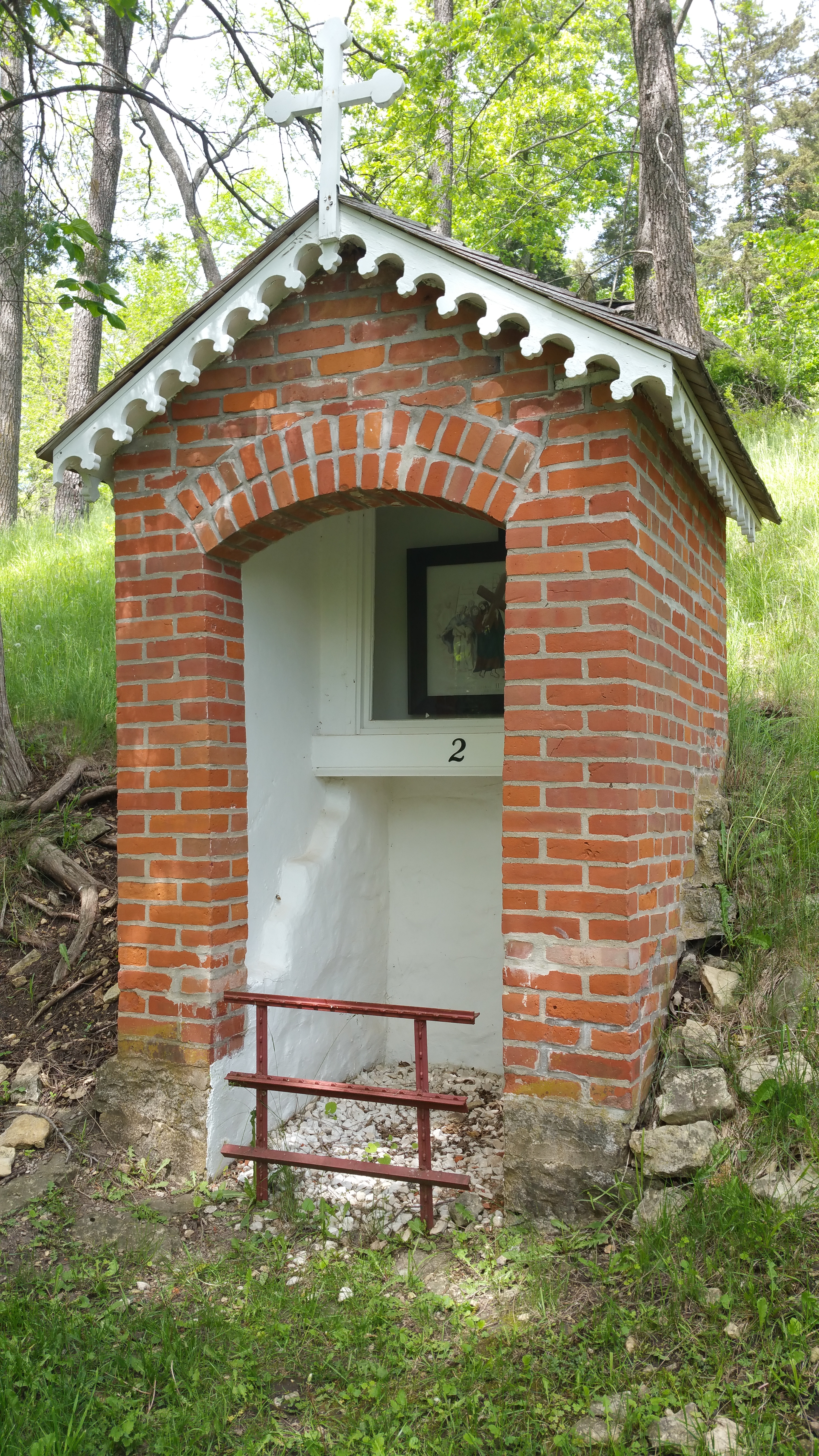 St Donatus, IA, USA